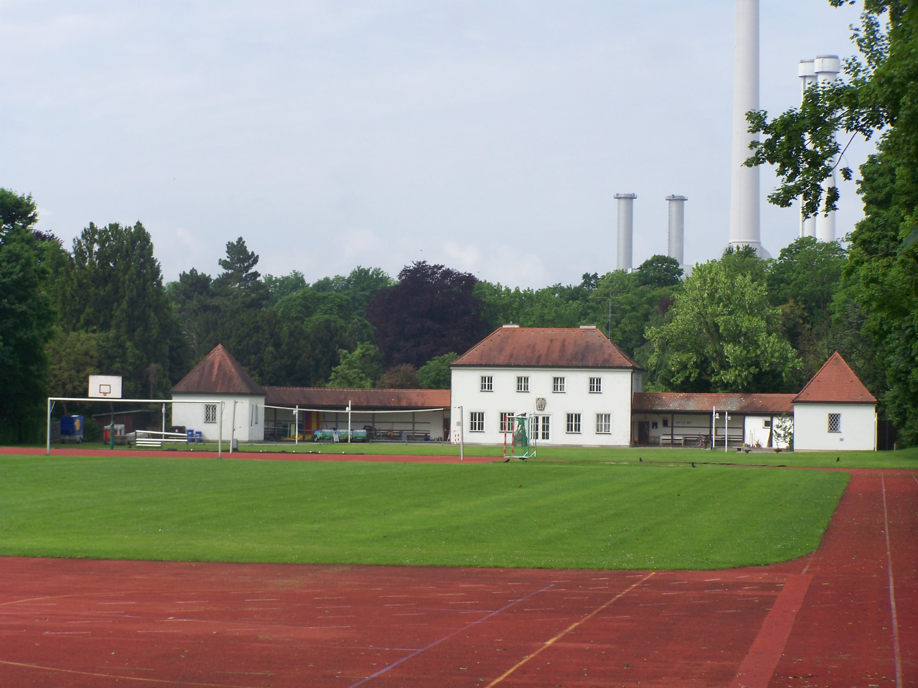 Schyrenwiese in Munich